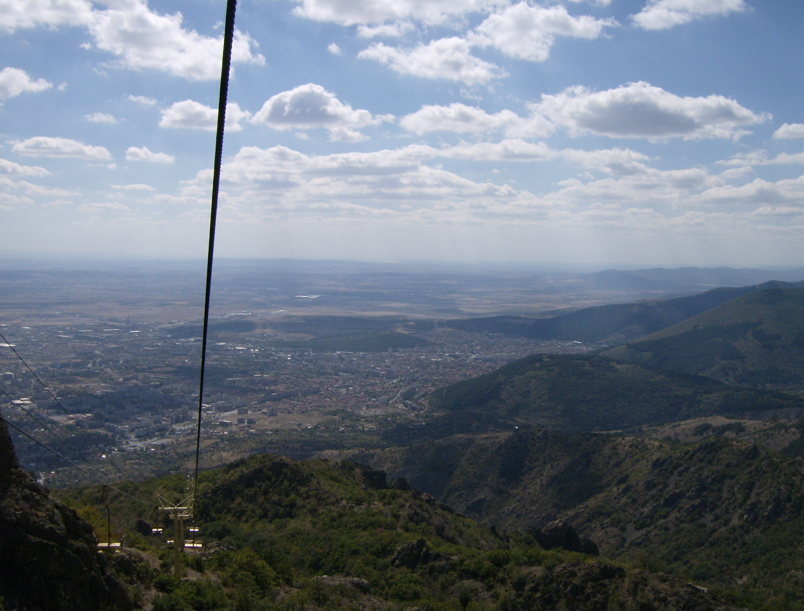 Sliven hollow